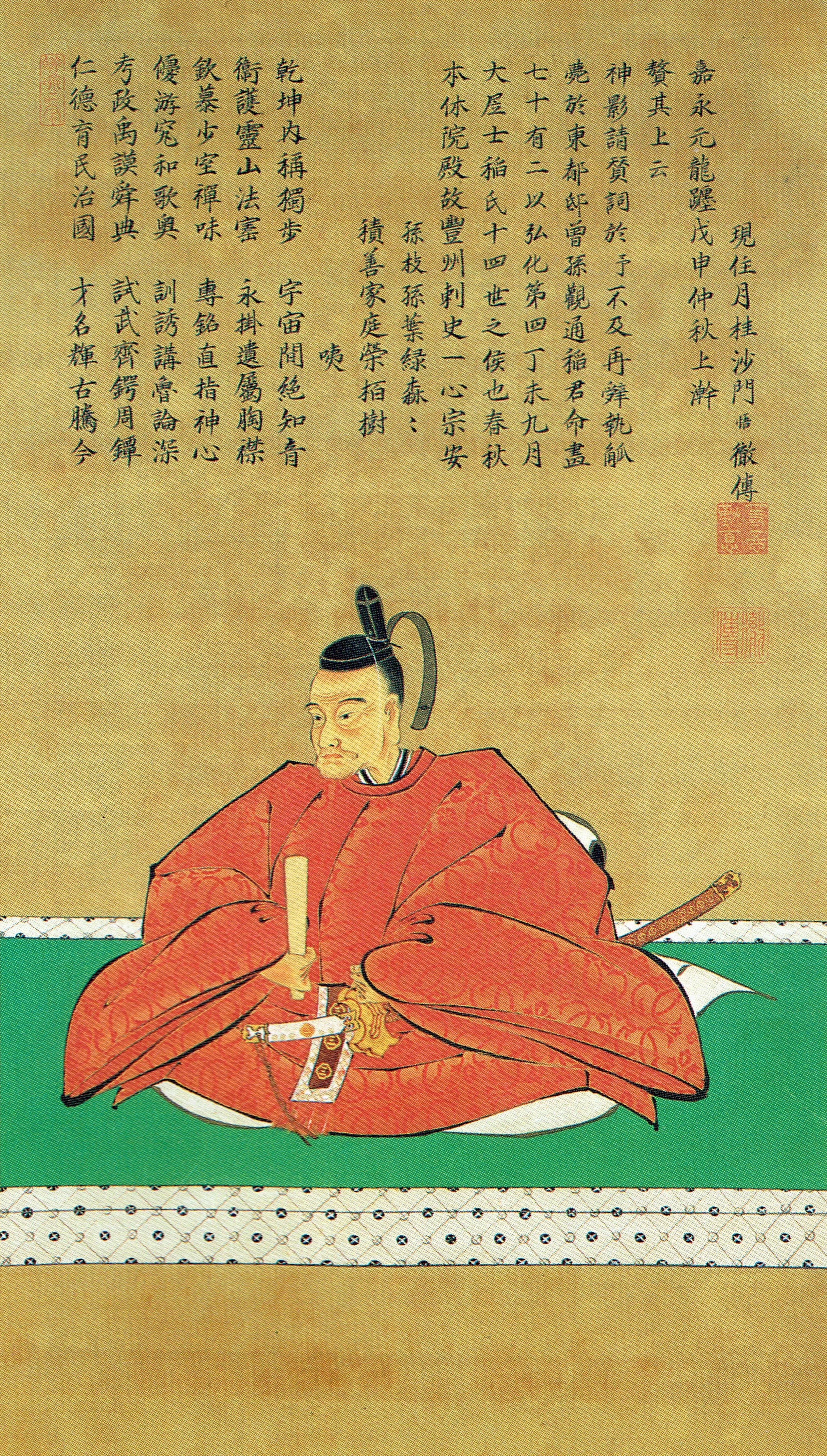 Portrait of Inaba Terumichi, owned by Gekkei-ji Temple in Usuki, Oita, Japan